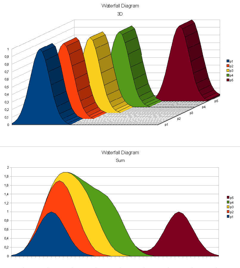 Waterfall diagrams